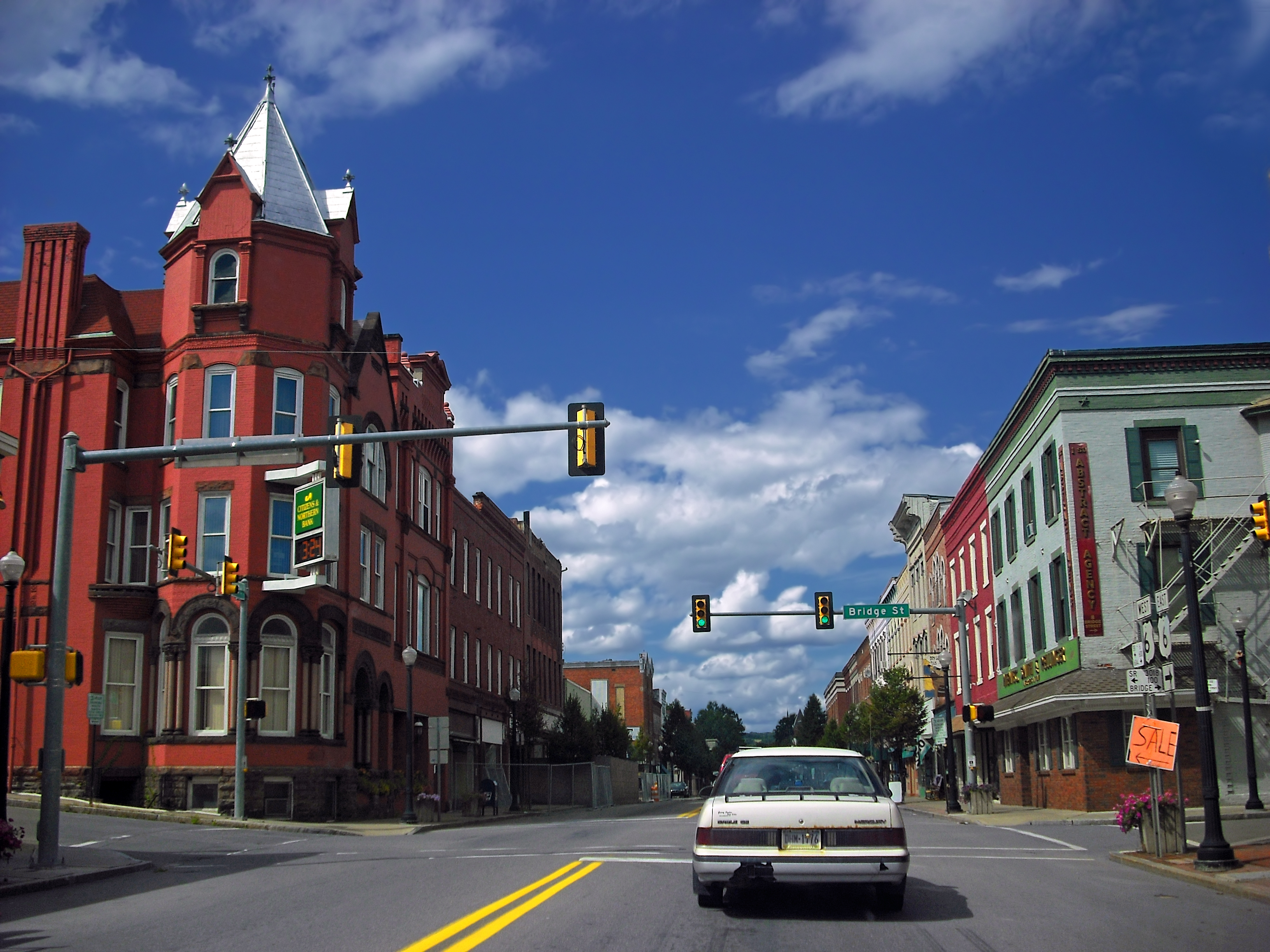 U.S. Route 6 in Towanda, Bradford County, Pennsylvania, United States. Picture is taken within the boundaries of the Towanda Historic District, which is listed on the National Register of Historic Places.